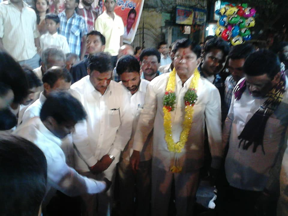 Salandri Mallesh Yadav